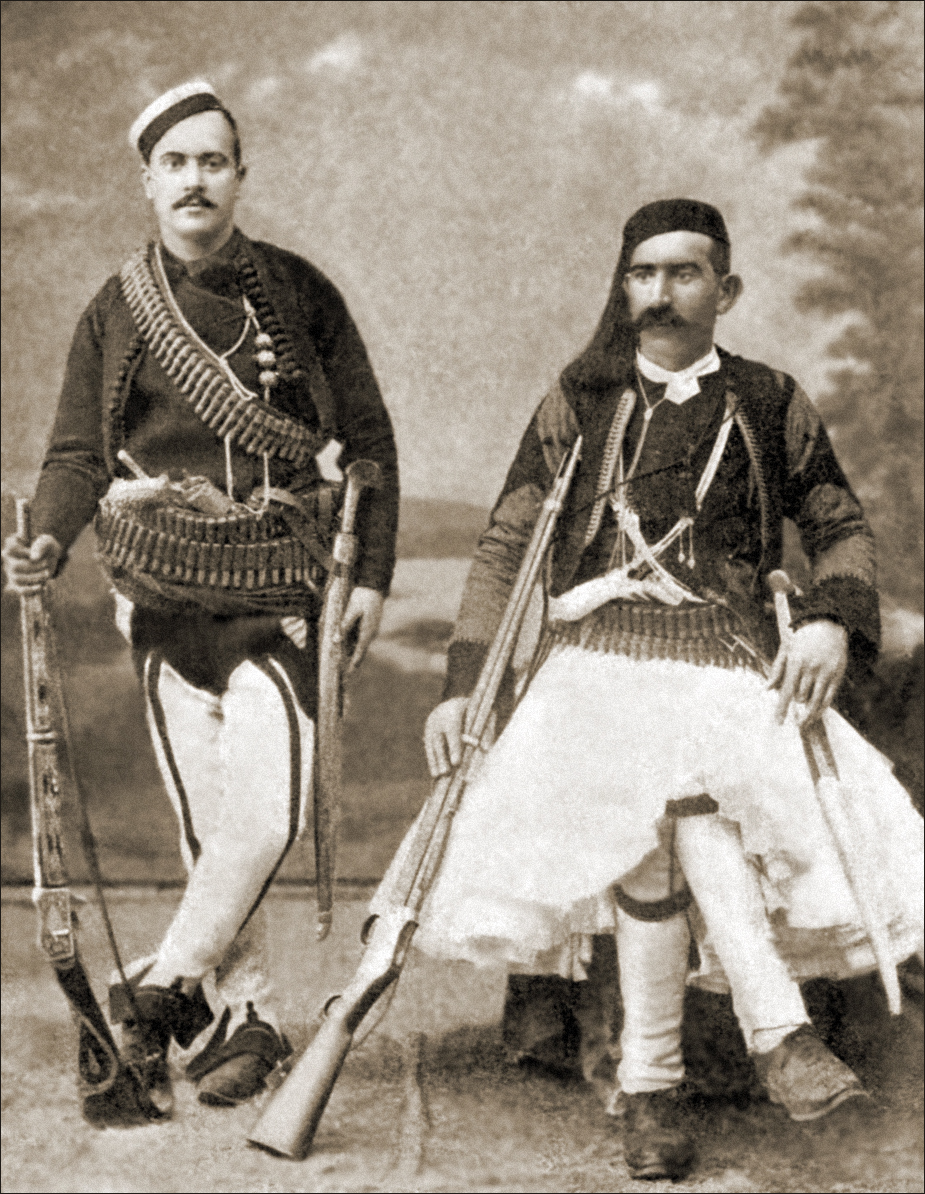 Albanians (1904) Dibra